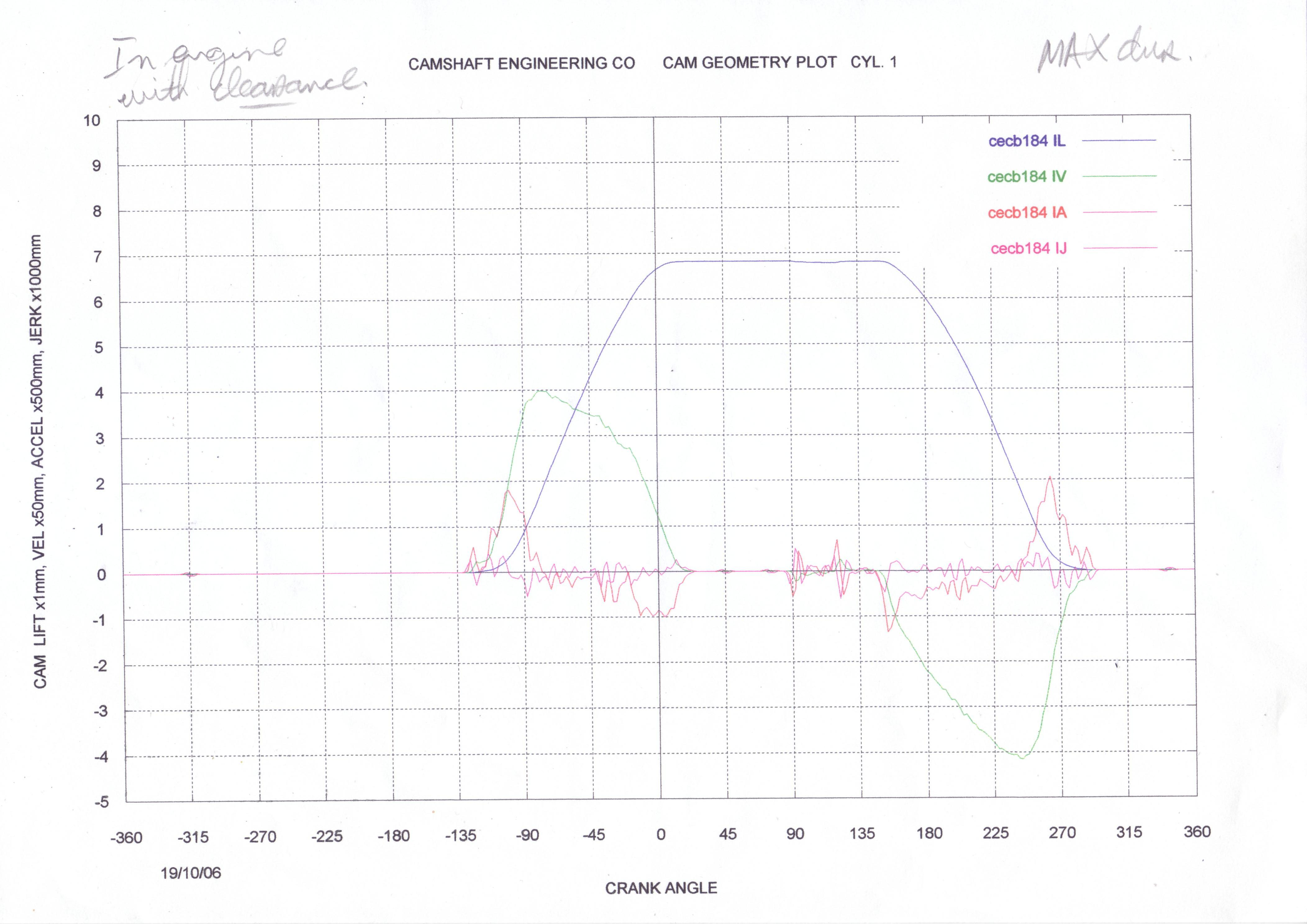 Lift graph Suzuki helical cam max duration.